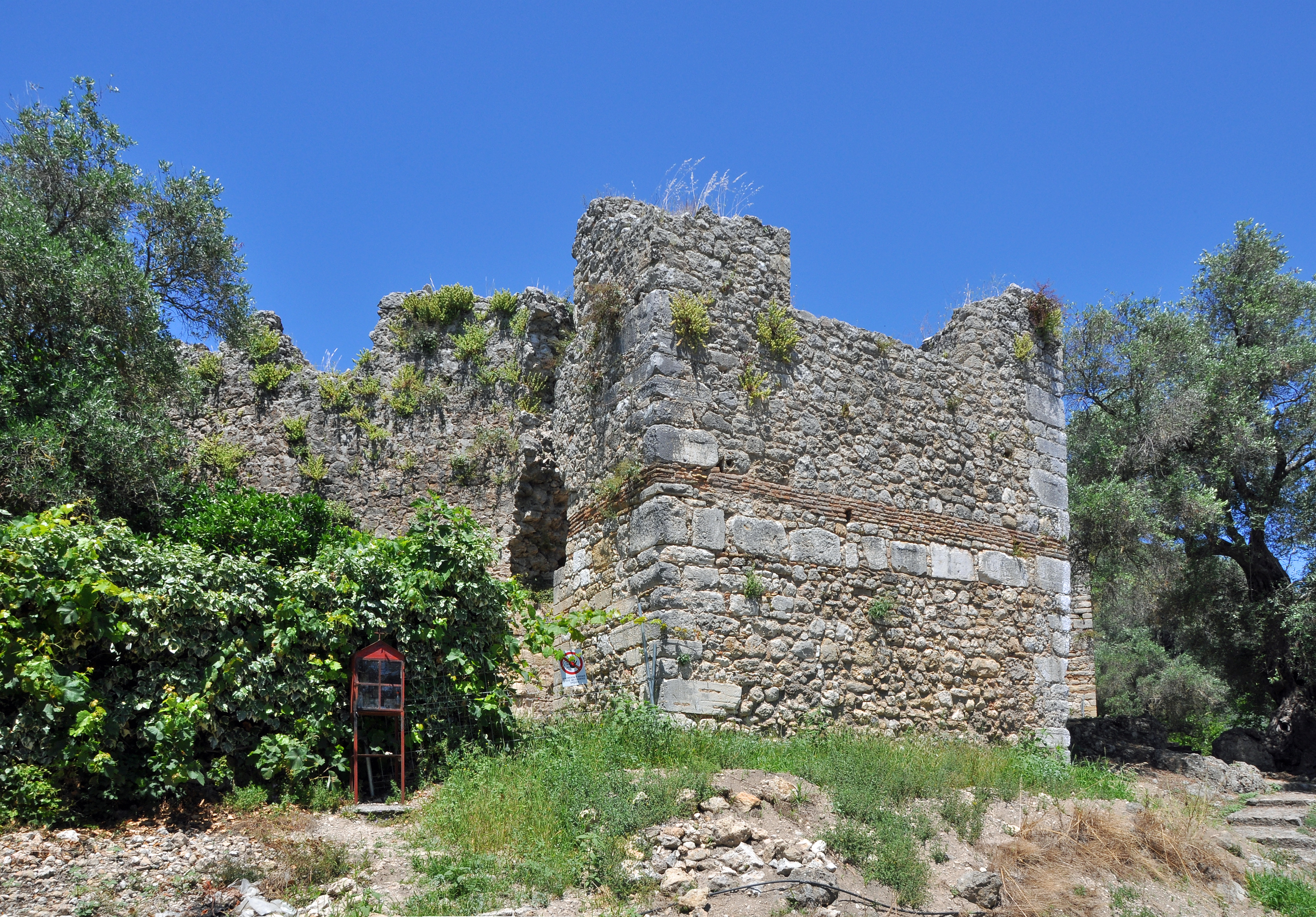 Gardiki (Corfu, Greece): old Byzantine castle